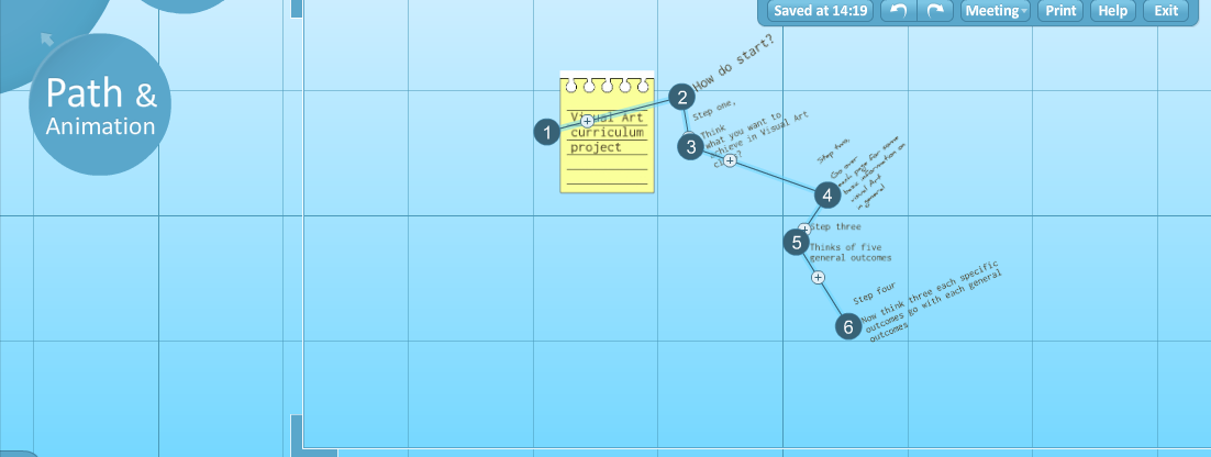 This shows Prezi path tool